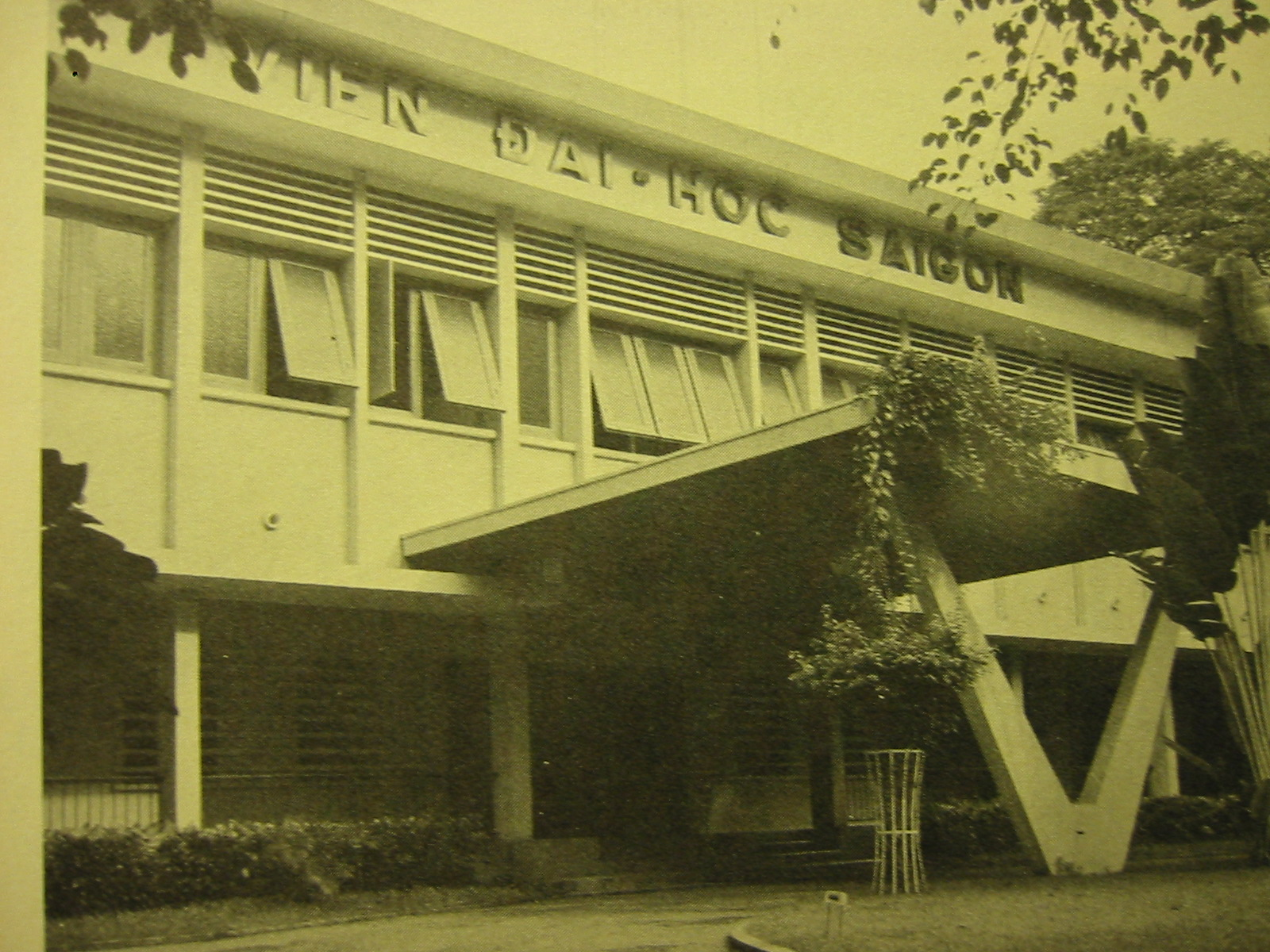 University of Saigon